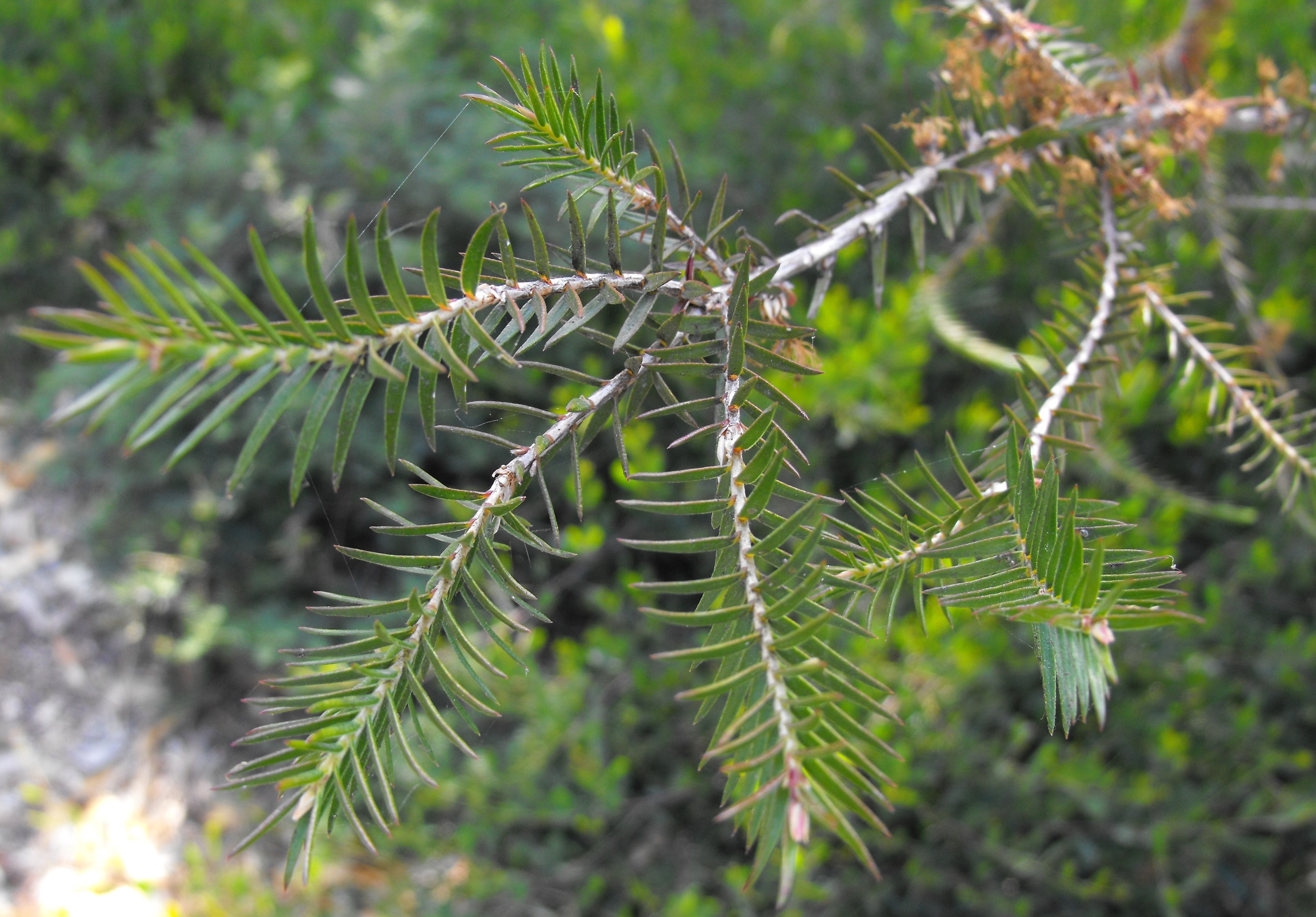 Melaleuca wilsonii foliage. At the San Diego Botanic Garden (formerly Quail Botanical Gardens) in Encinitas, California..